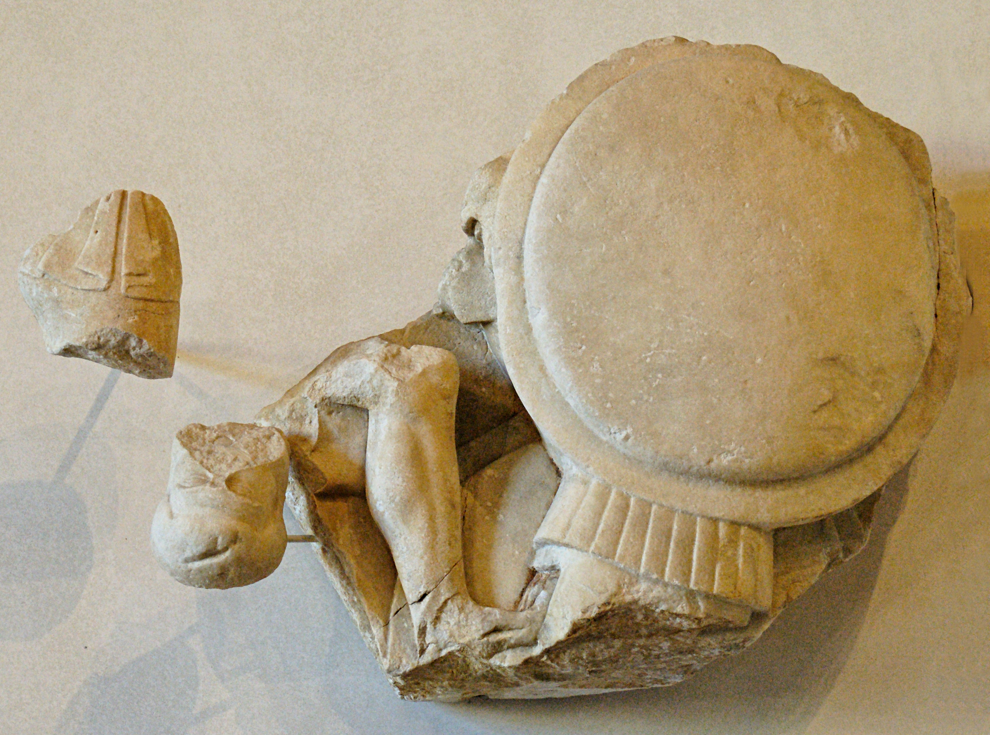 Heracles fighting Geryon: third metope over the East porch, temple of Zeus at Olympia. Parian marble, ca. 460 BC.